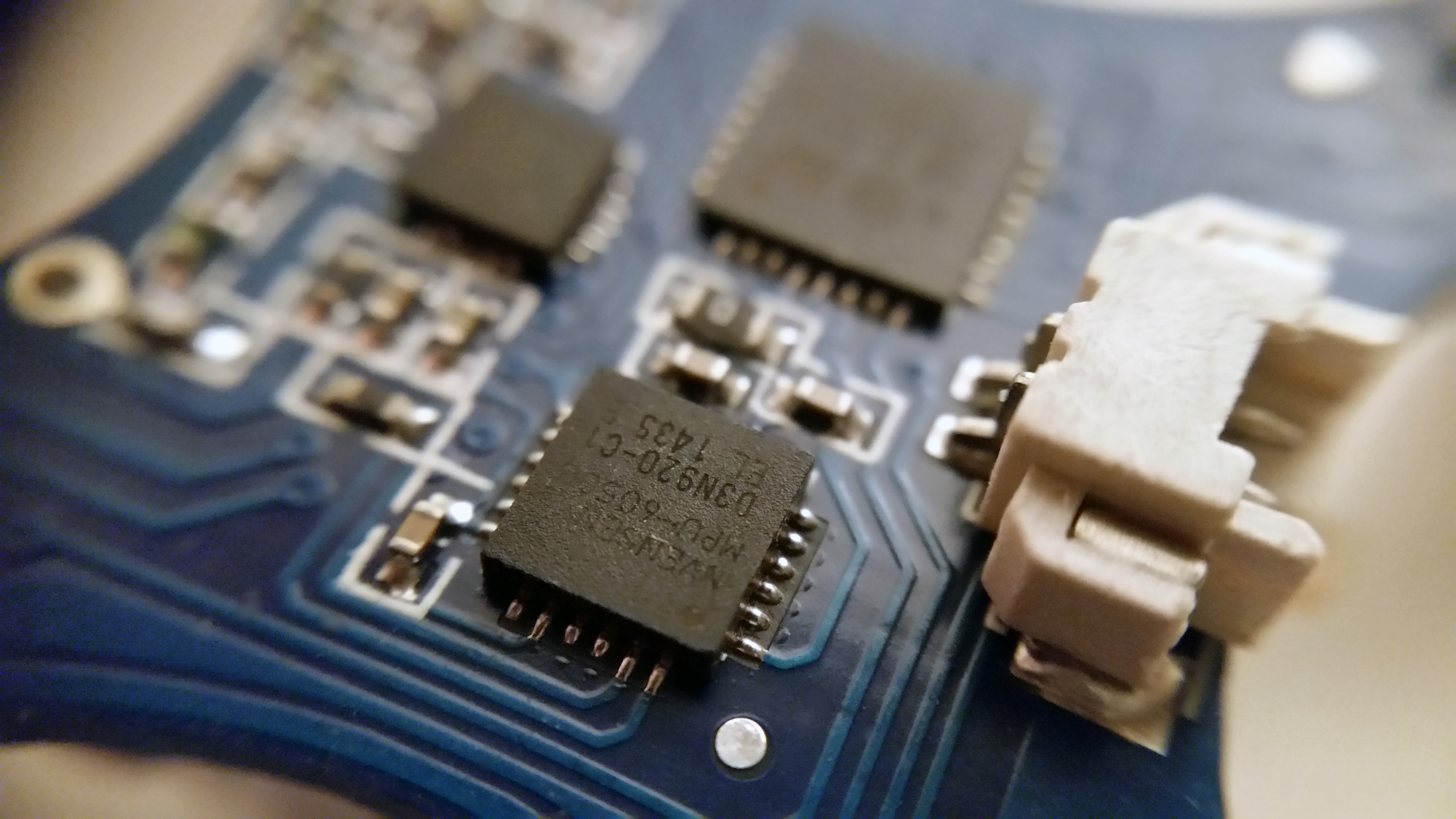 CD-CX10RFW 2014.09.01 Blue PCB STM32F031K4 Microprocessor XN297 2.4GHz RF chip InvenSense MPU-6050 Six-Axis (Gyro + Accelerometer) MEMS Motion Tracking Device